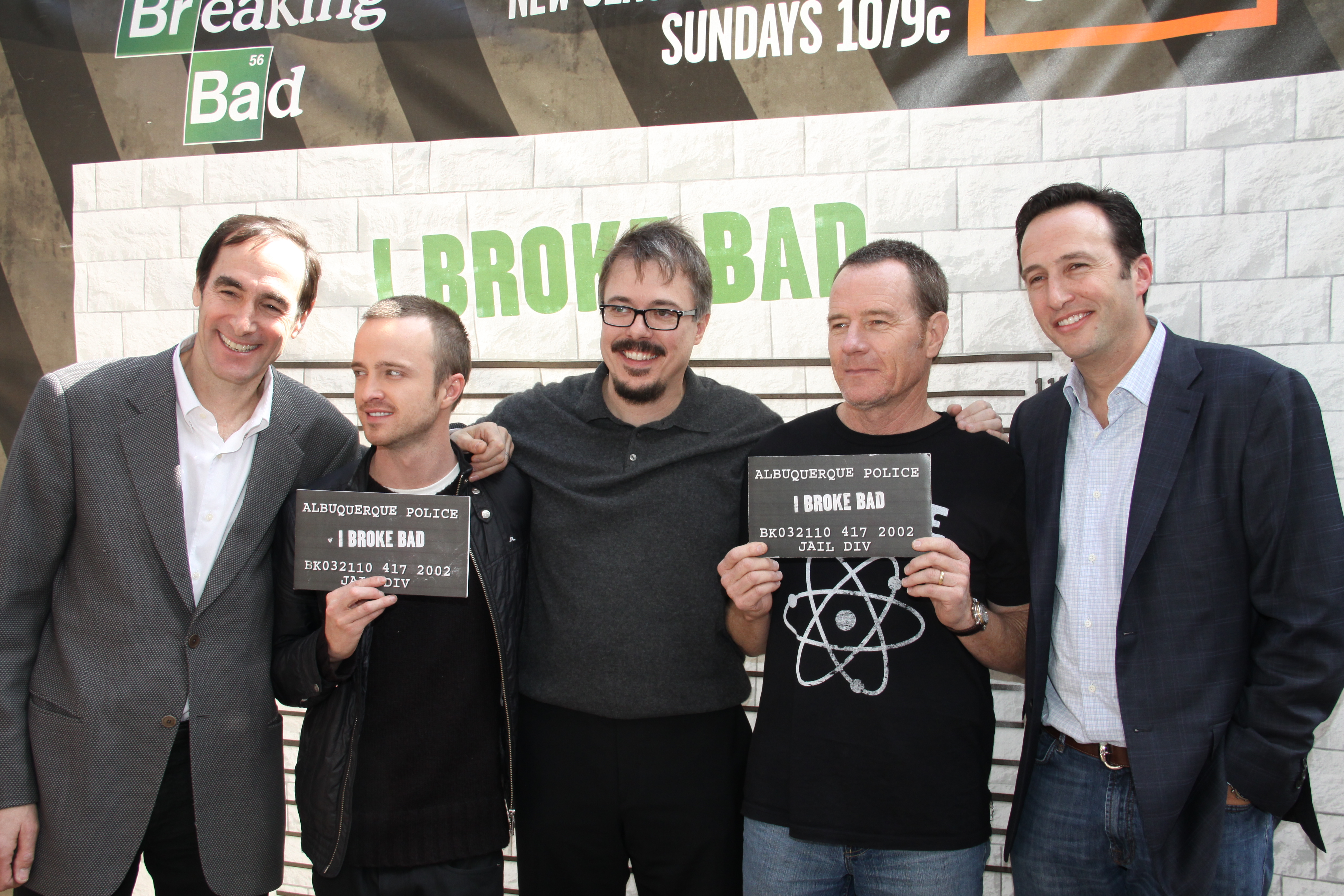 President and Chief Executive Officer AMC Networks Josh Sapan, actor Aaron Paul, showrunner Vince Gilligan, actor Bryan Cranston and President and General Manager AMC Charlie Collier